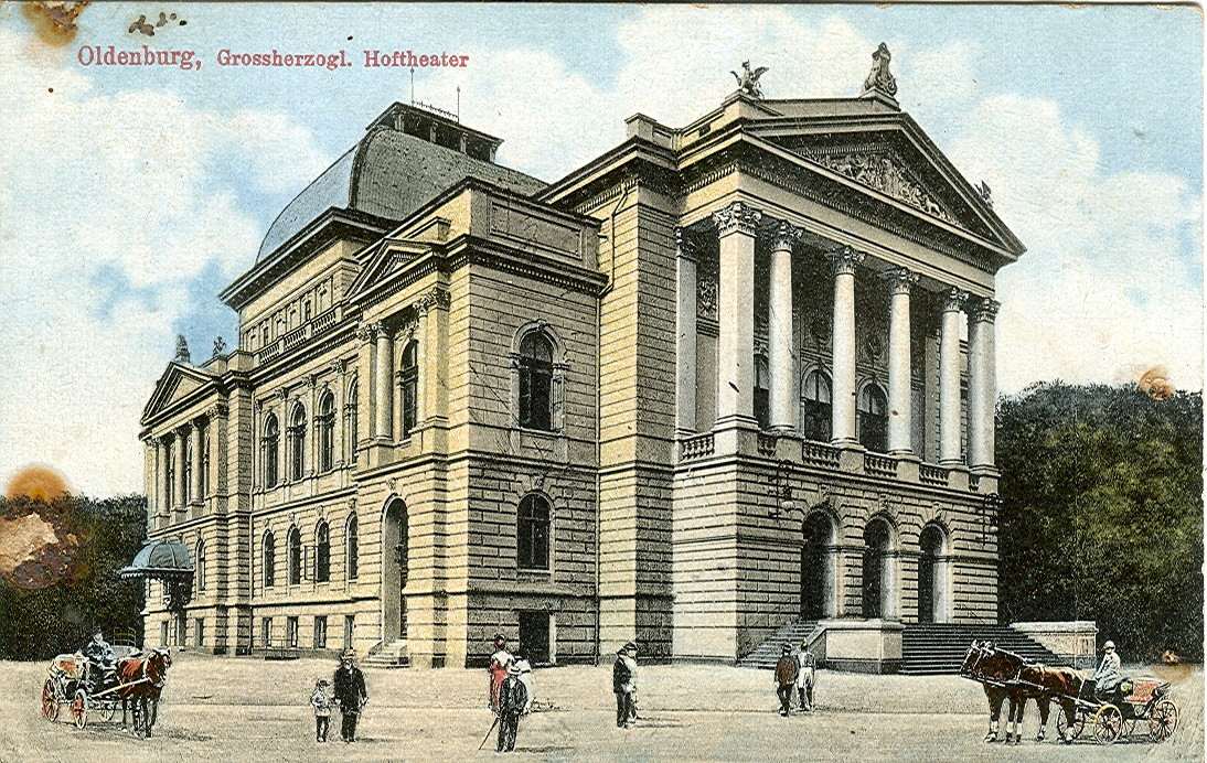 Theatre of the Granduke´s court at Oldenburg, Germany